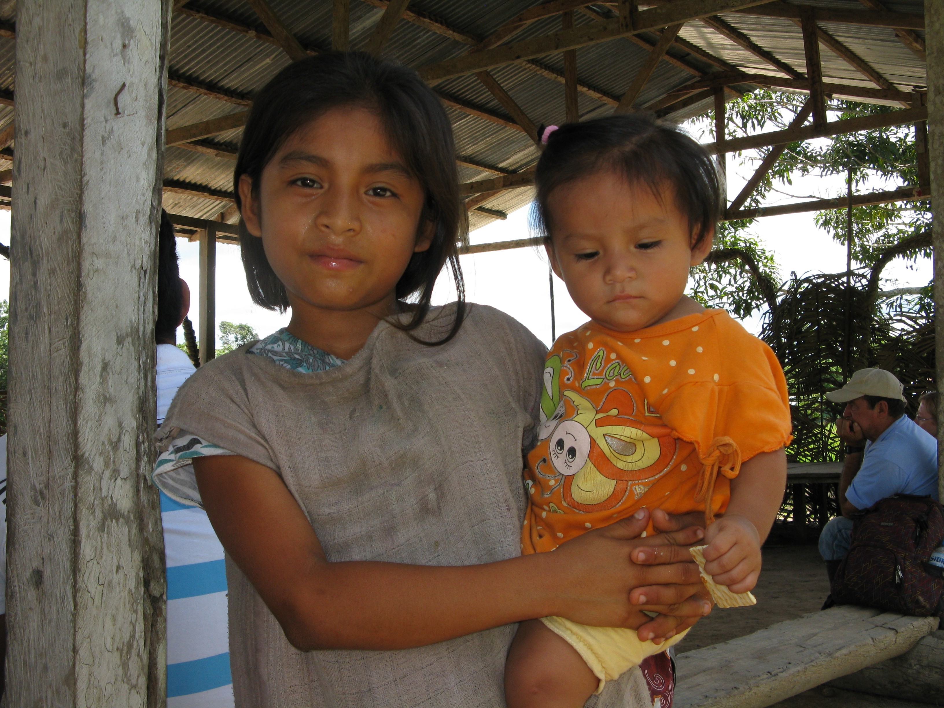 Chidren of the people Asháninka, in Peru, Comunidades Nativas Asháninka "Nuevos Unidos Tahuantinsuyo" (Province Puerto Inca, District Huánuco)